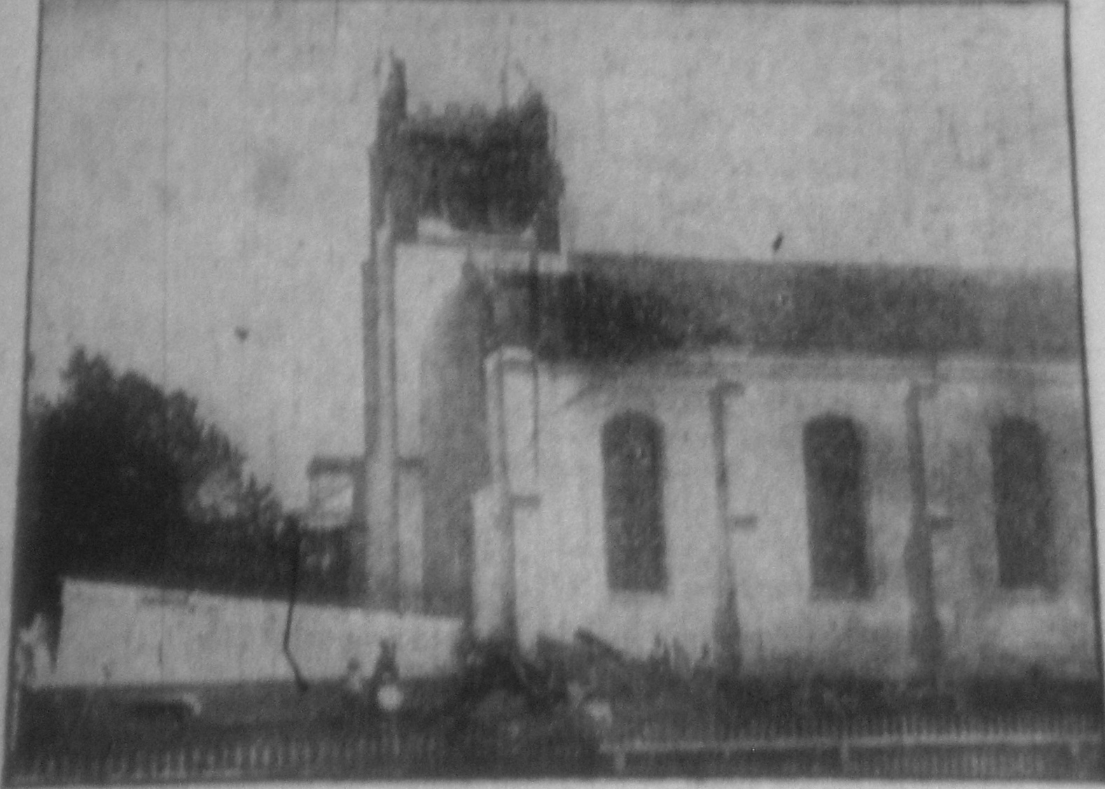 St. Joseph's Church, Thibodaux, Louisiana; damaged by the September 1909 hurricane.